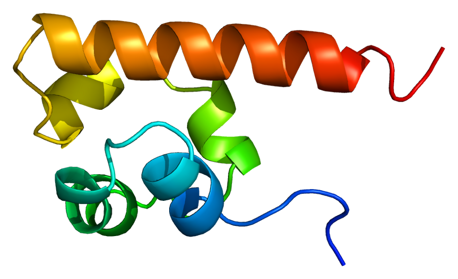 Structure of the EPHA4 protein. Based on PyMOL rendering of PDB 1b0x.